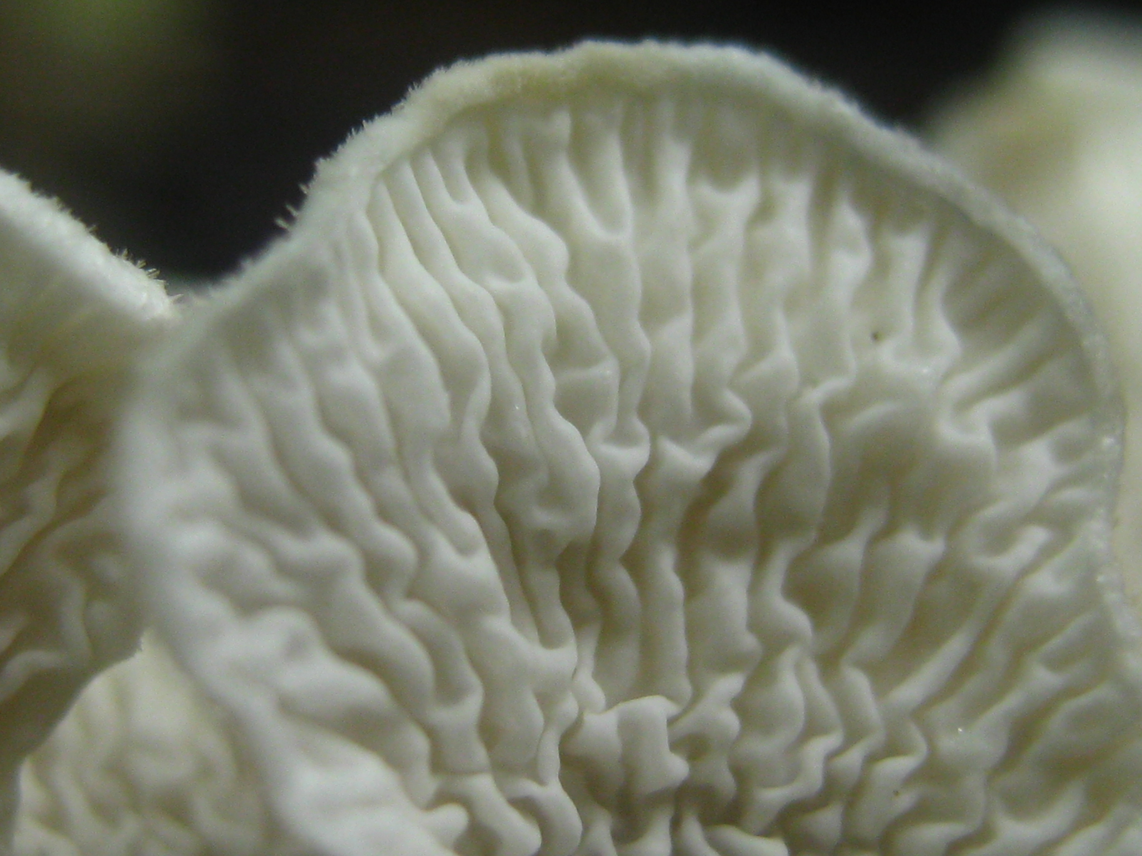 Plicaturopsis crispa (Pers.) Rea Image location: Ottawa, Ontario, Canada Recognized by sight For more information about this, see the observation page at Mushroom Observer.